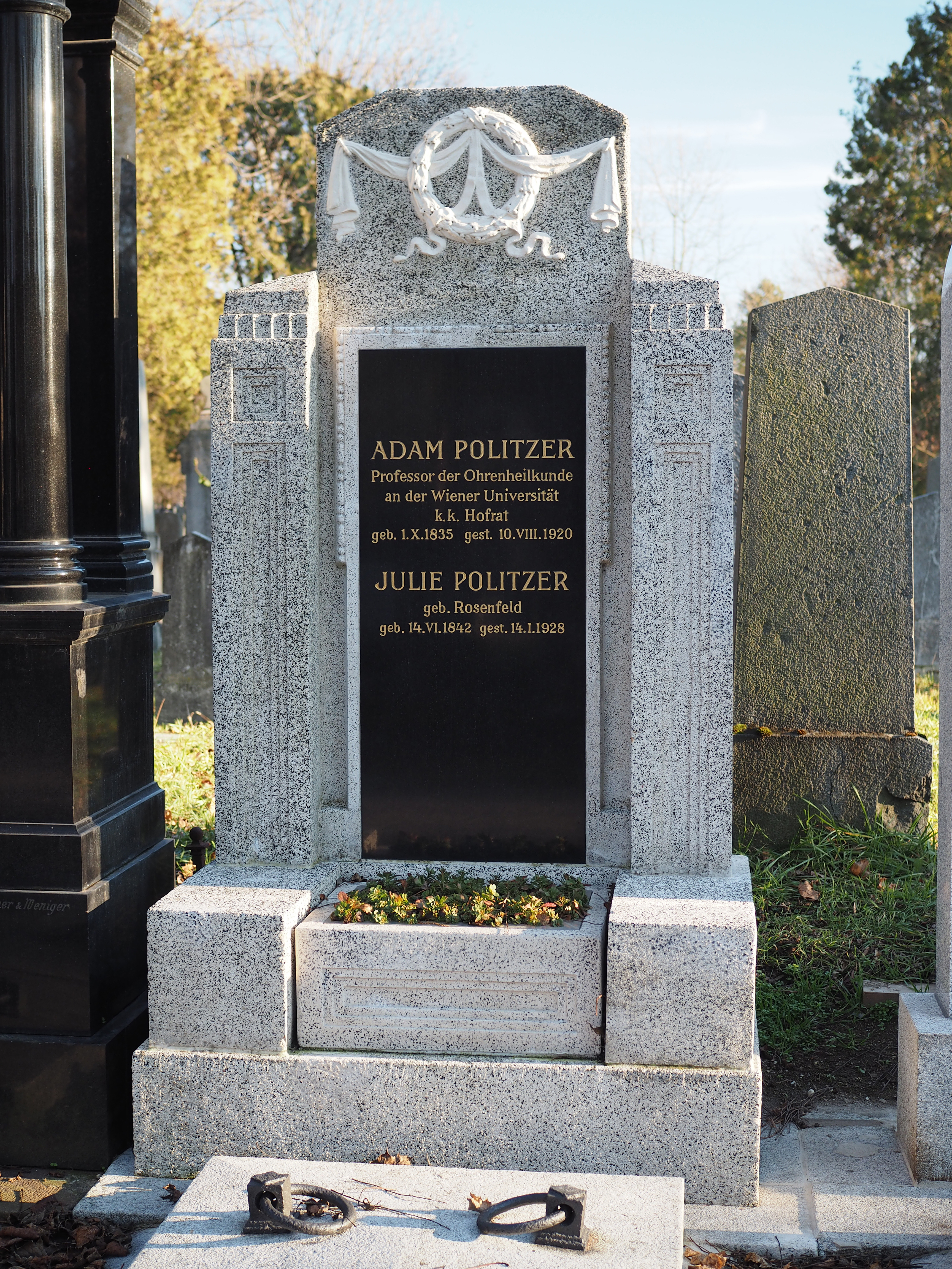 Grave of the otorhinolaryngologist Adam Politzer (1835–1920) in the Old Jewish part of the Vienna Central Cemetery (group 8, row 1, number 45)